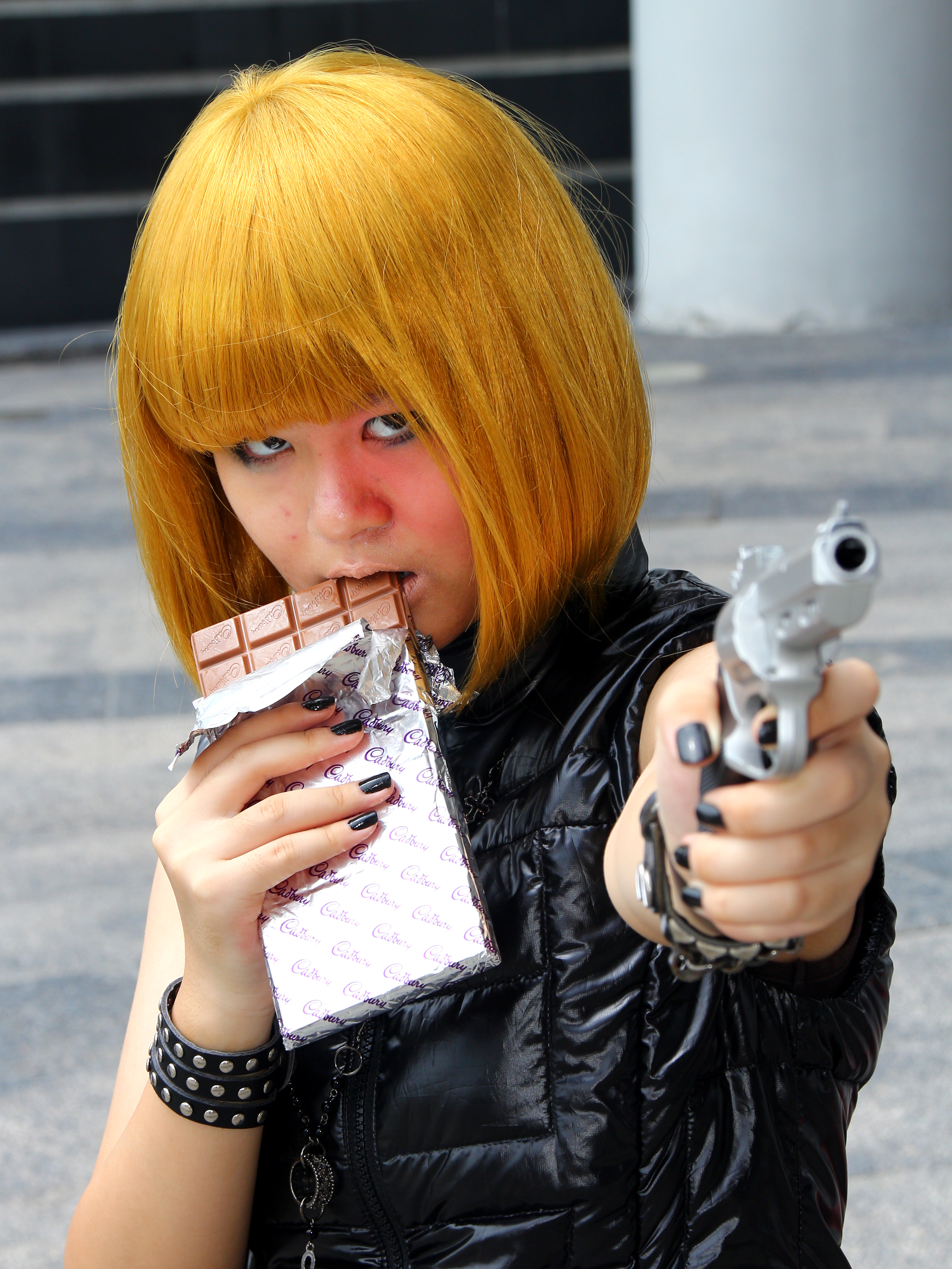 Mello - Deathnote